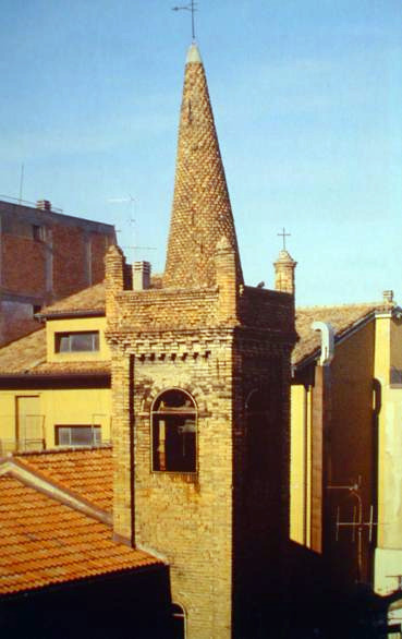 La chiesa di San Zenone